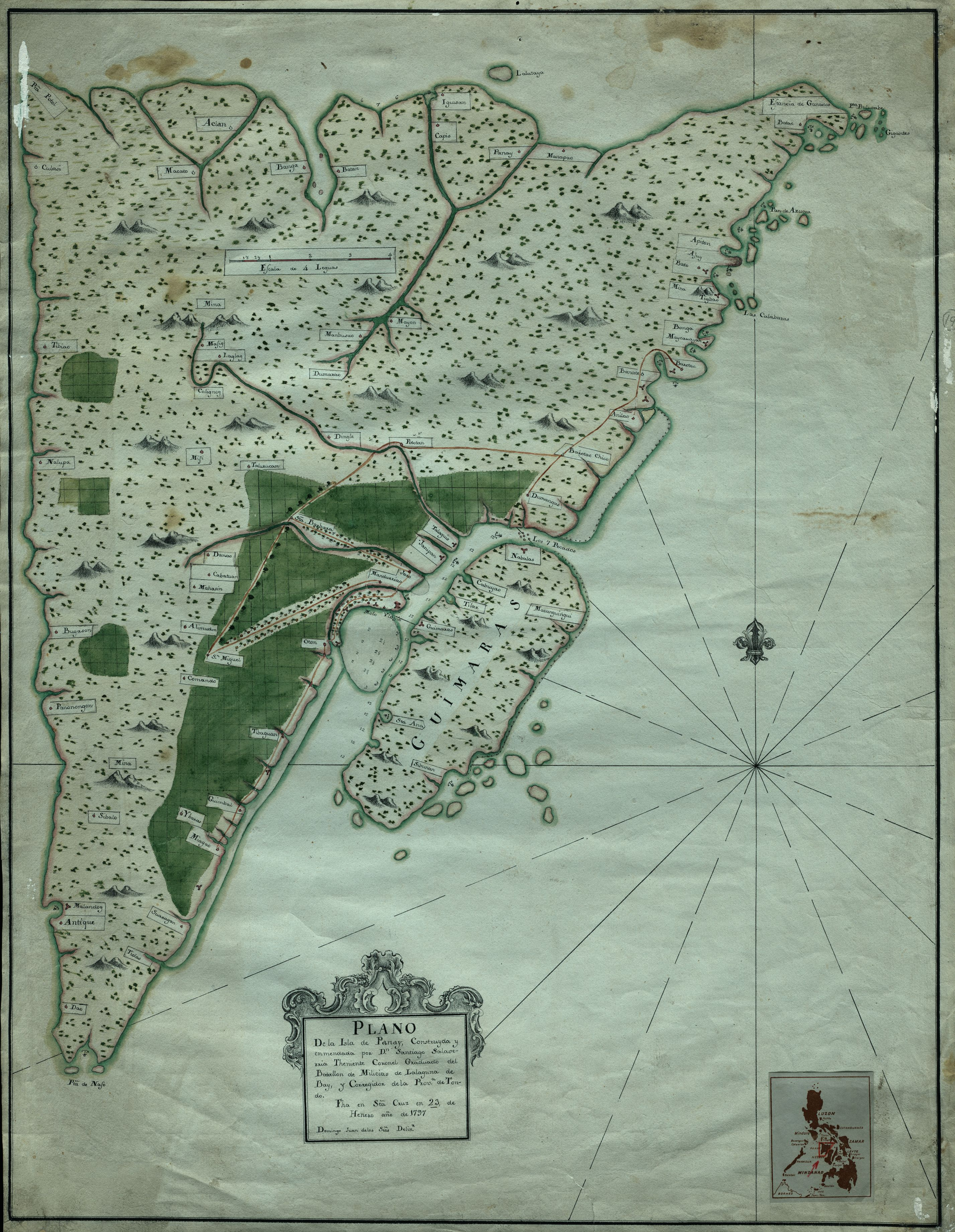 Map of Panay, with data about the bastions of its coastlines, 1797, drawn under the direction of Don Santiago Salaverria, Teniente Coronel graduado de Batallon de Milicias de la Laguna de Bay, y Corregidor de la Provincia de Tondo Date: 1797 Location of the document: British Museum Scale: 4.5 miles to an inch, of 60 to a degree Dimension: 2 ft. and 4 inches X 2 ft. and 2 inches. Published: Panay in the late 18th Century